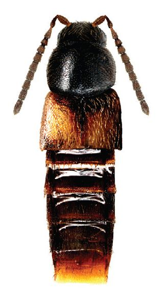 Atheta longicornis